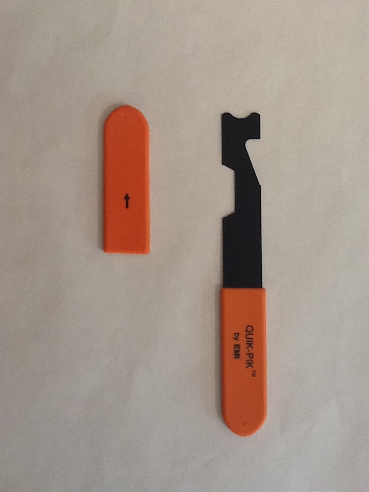 The is a photo of a Quik-Pik EMI Shove Knife from June 2012.